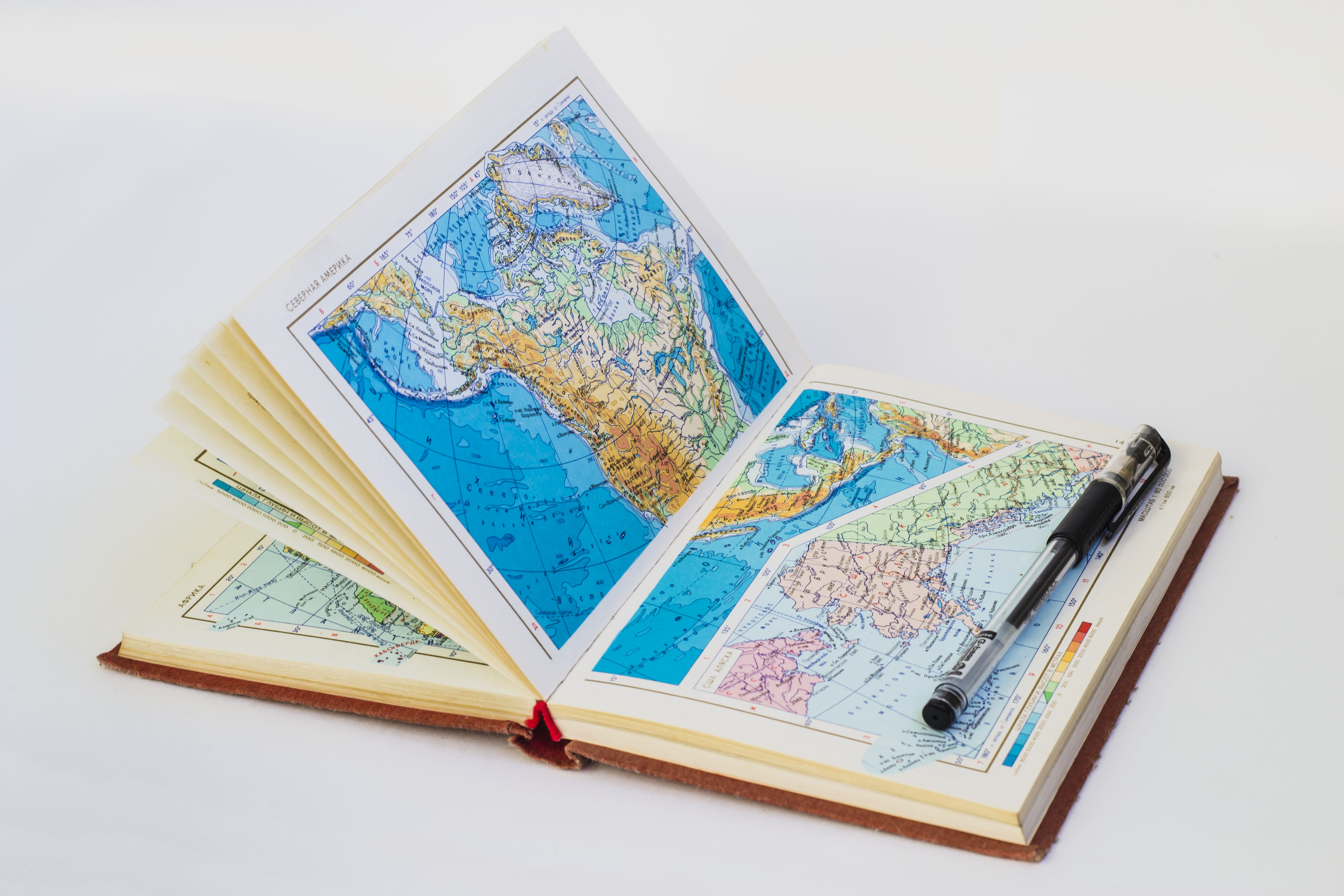 Geography... Perhaps one of the most interesting science. The study of the physical features of the earth and its atmosphere, and of human activity as it affects and is affected by these, including the distribution of populations and resources, land use, and industries.